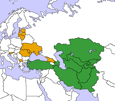 Map of the Economic Cooperation Organization and the Community of Democratic Choice. Created by me, User:Aris Katsaris by modifying Image:Turkestan.png. Aris Katsaris 06:48, 15 March 2006 (UTC)